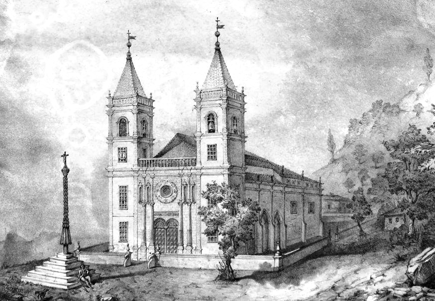 The Church of the Holy Christ of Outeiro in Bragança (Portugal).